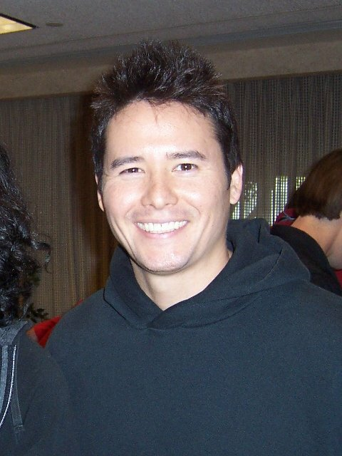 A photograph of Johnny Yong Bosch.